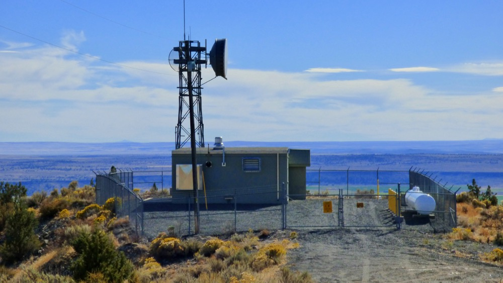 Burns AFS Radio Site Bldg 230, now a Bonneville Power Administration Communications Site, photo by John Stanton 8 Oct 2016